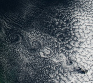 A single sided Von Karman Vortex street off the tiny island of Herald.